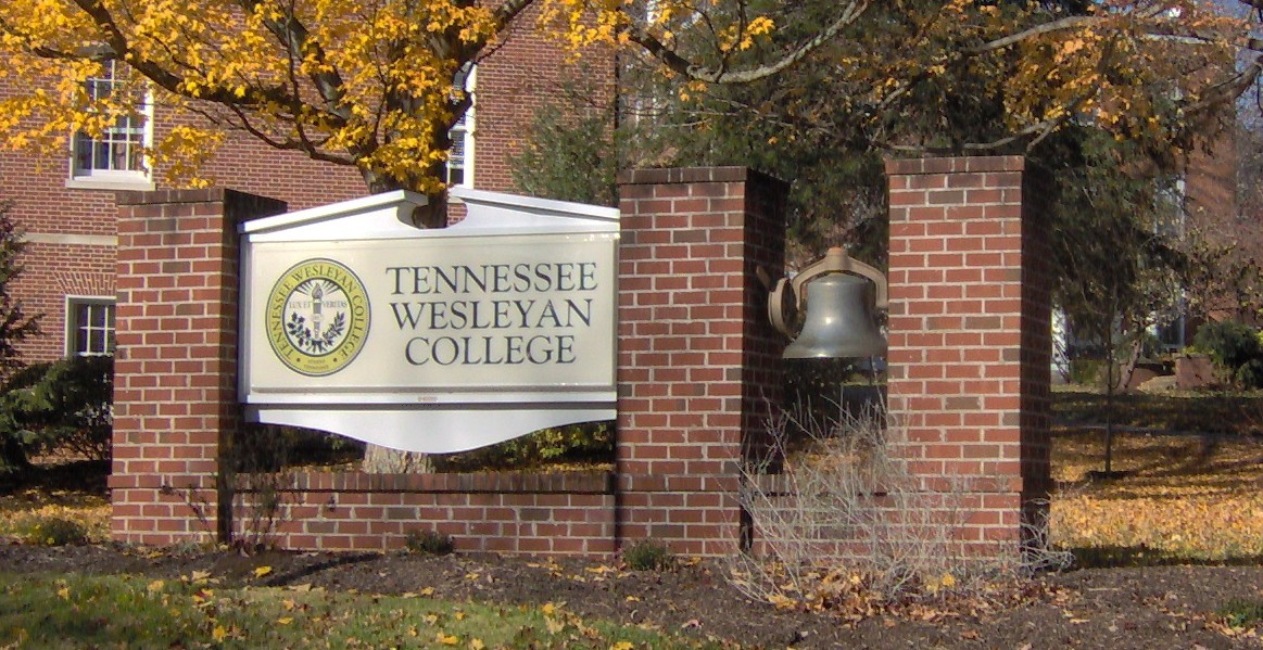 Tennessee Wesleyan College in Athens, Tennessee, in the southeastern United States. Tennessee Wesleyan was organized by the Methodist Episcopal Church as Athens Female College in 1857 and rechartered under its current name in 1925.